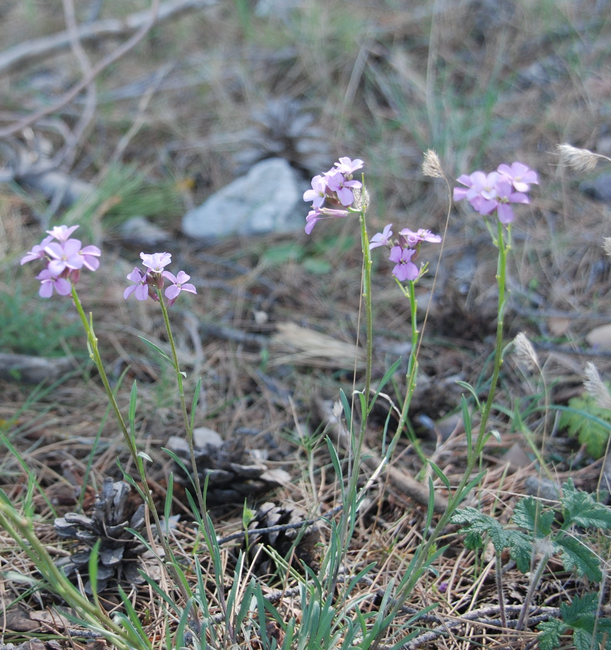 Javalcuz, Jaen, 29-April-2008, José M. Gómez